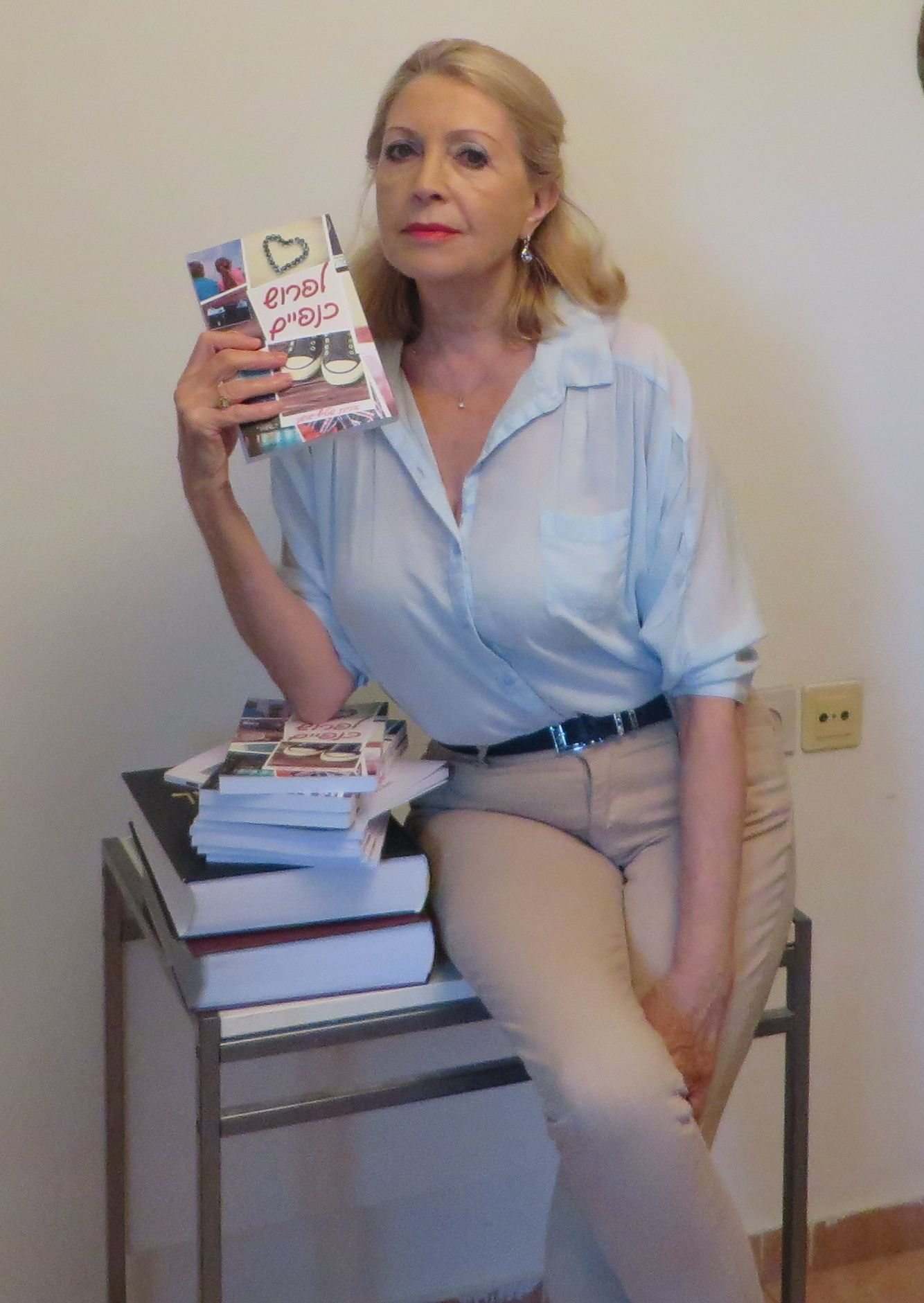 Irit Shoshani